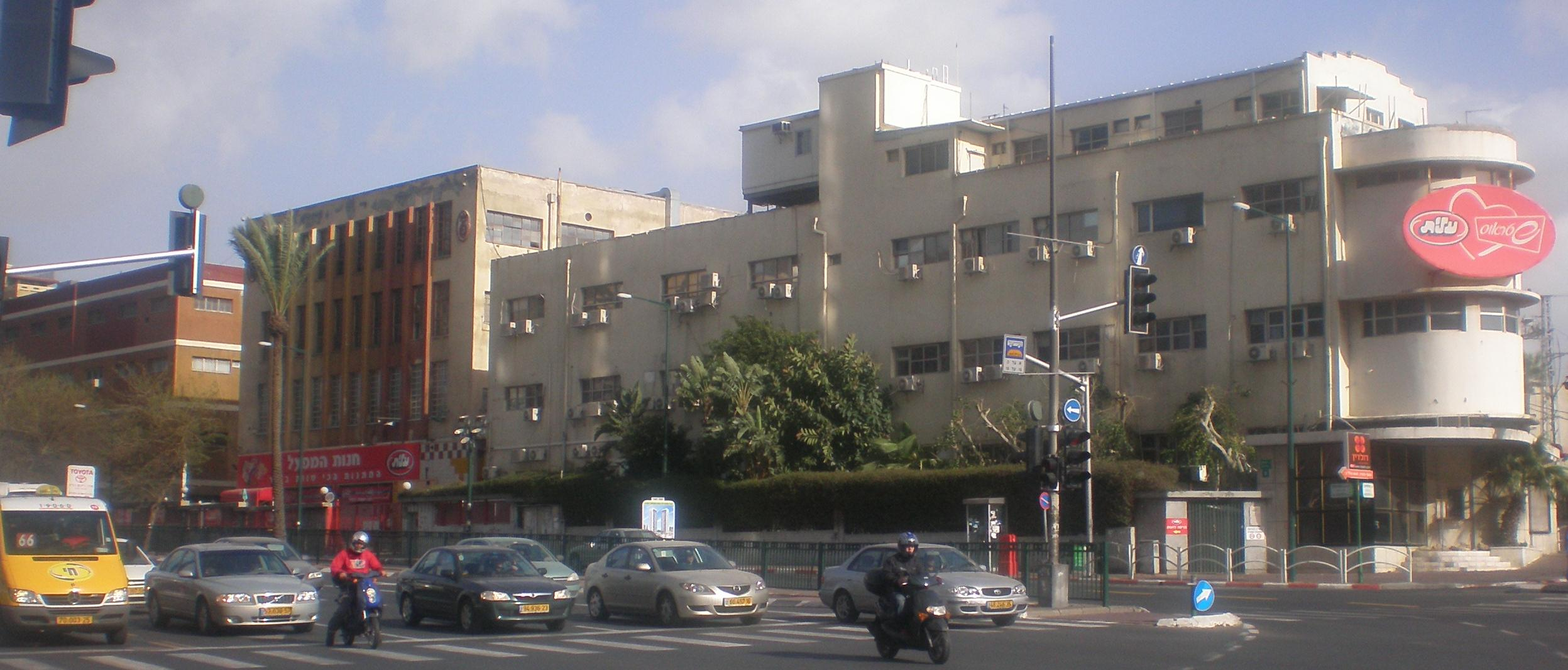 Former Elite factory, Ramat Gan